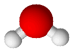 Heavy water